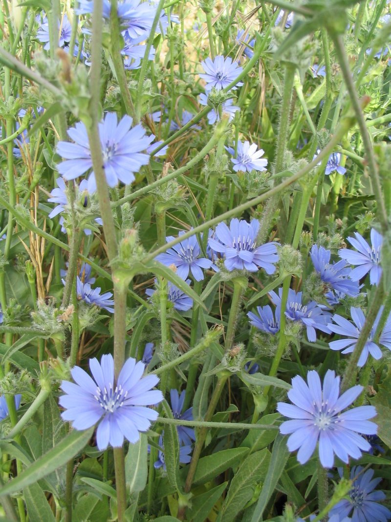 Cichorium pumilum near the Yagur junction (near Kibbutz Yagur, on the boundary between Mount Carmel and Zebulun valley), Israel.